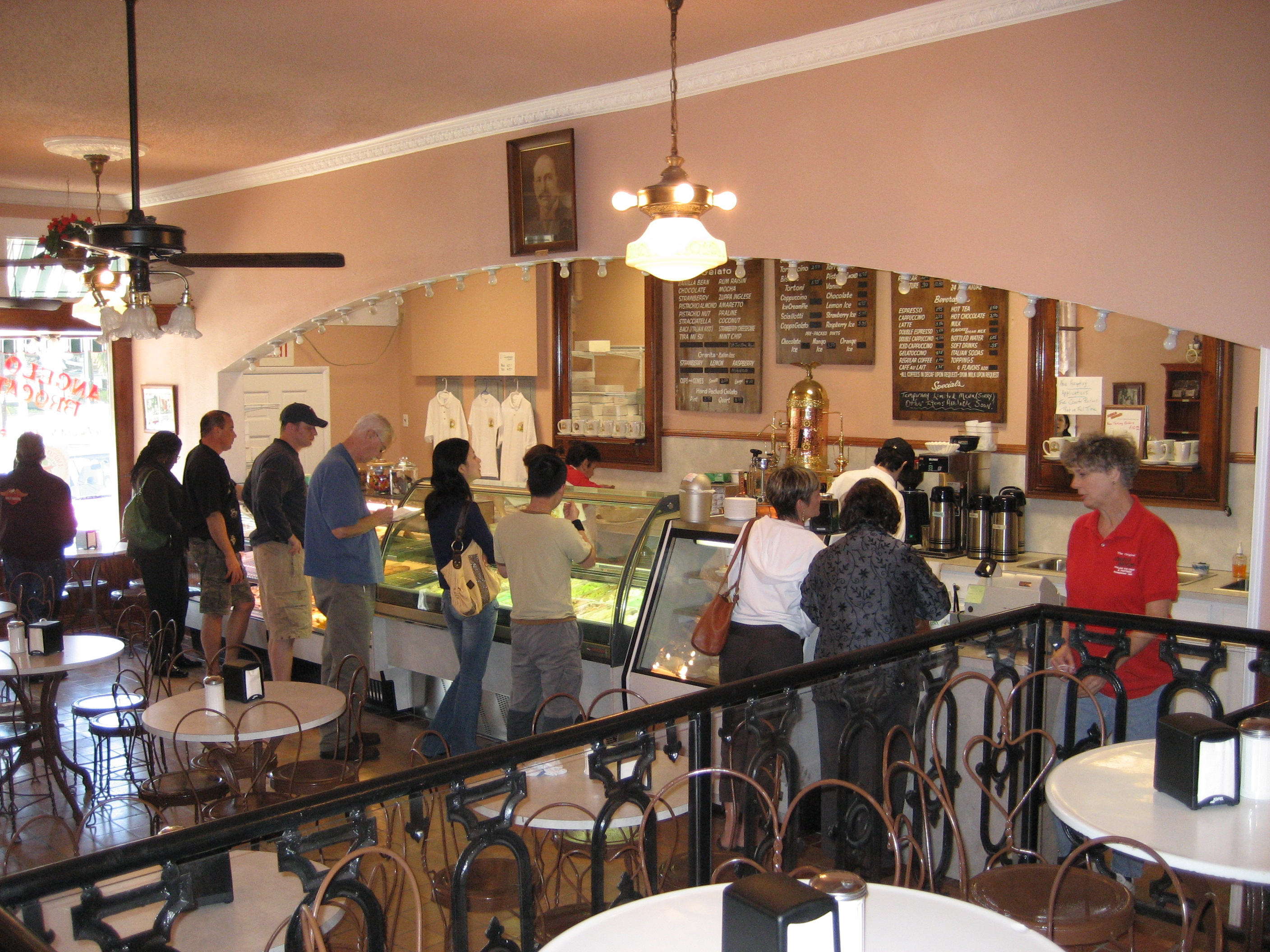 New Orleans: Locally famous Angelo Brocato's is again open, over a year after severe flooding due to the Federal levee failures during Hurricane Katrina. Photo by Infrogmation, October 2006